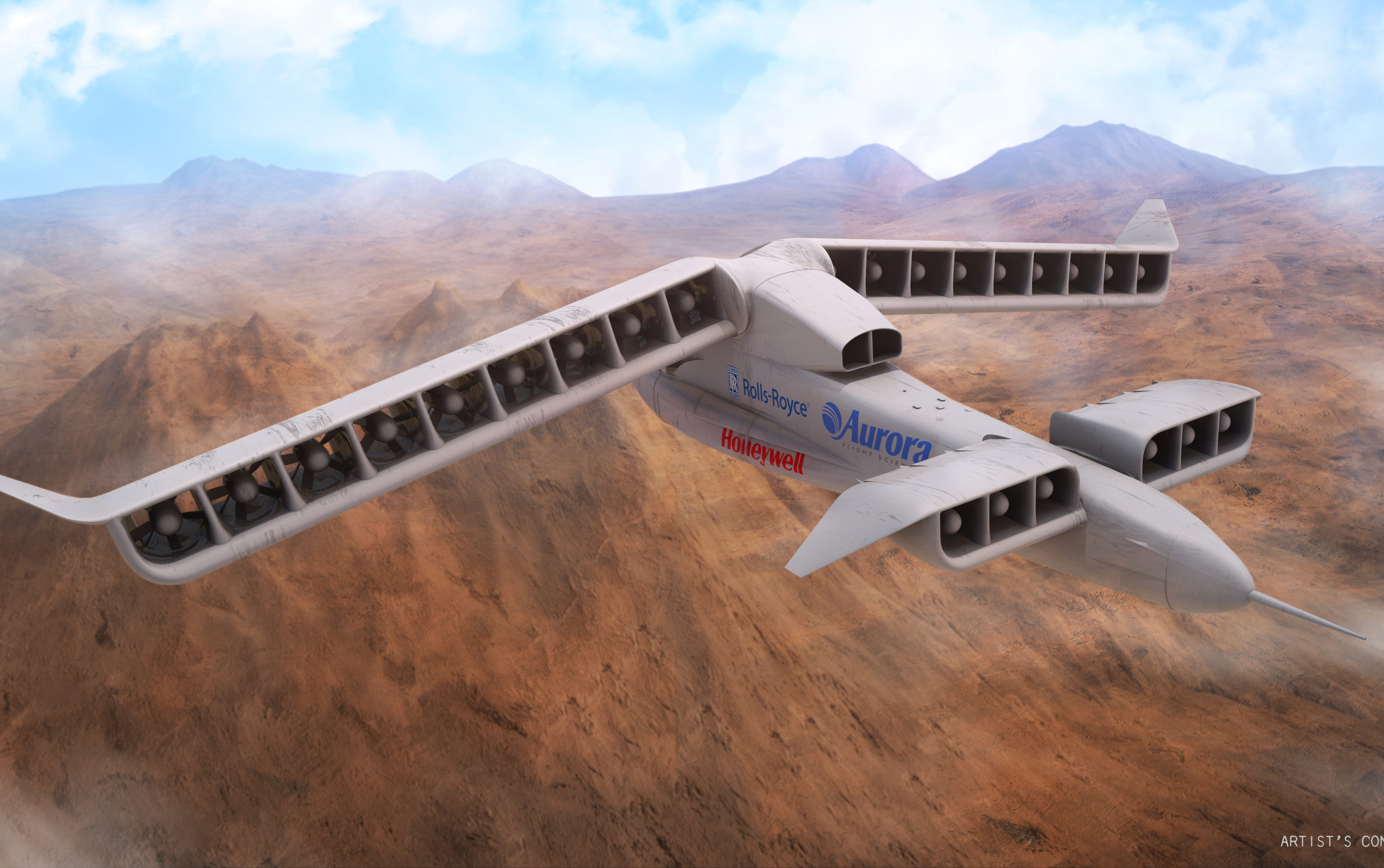 VTOL lightning strike